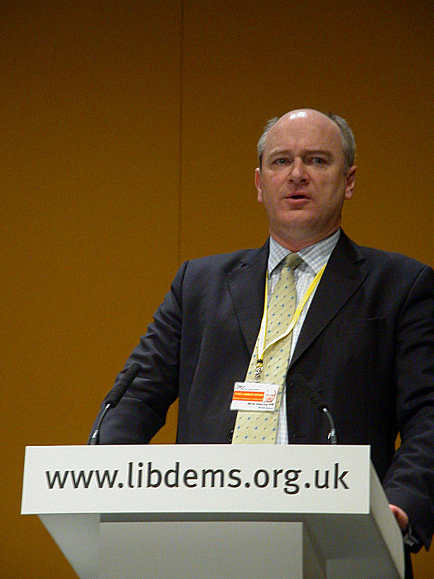 Nick Harvey MP addressing a Liberal Democrat conference in the ACC, Liverpool